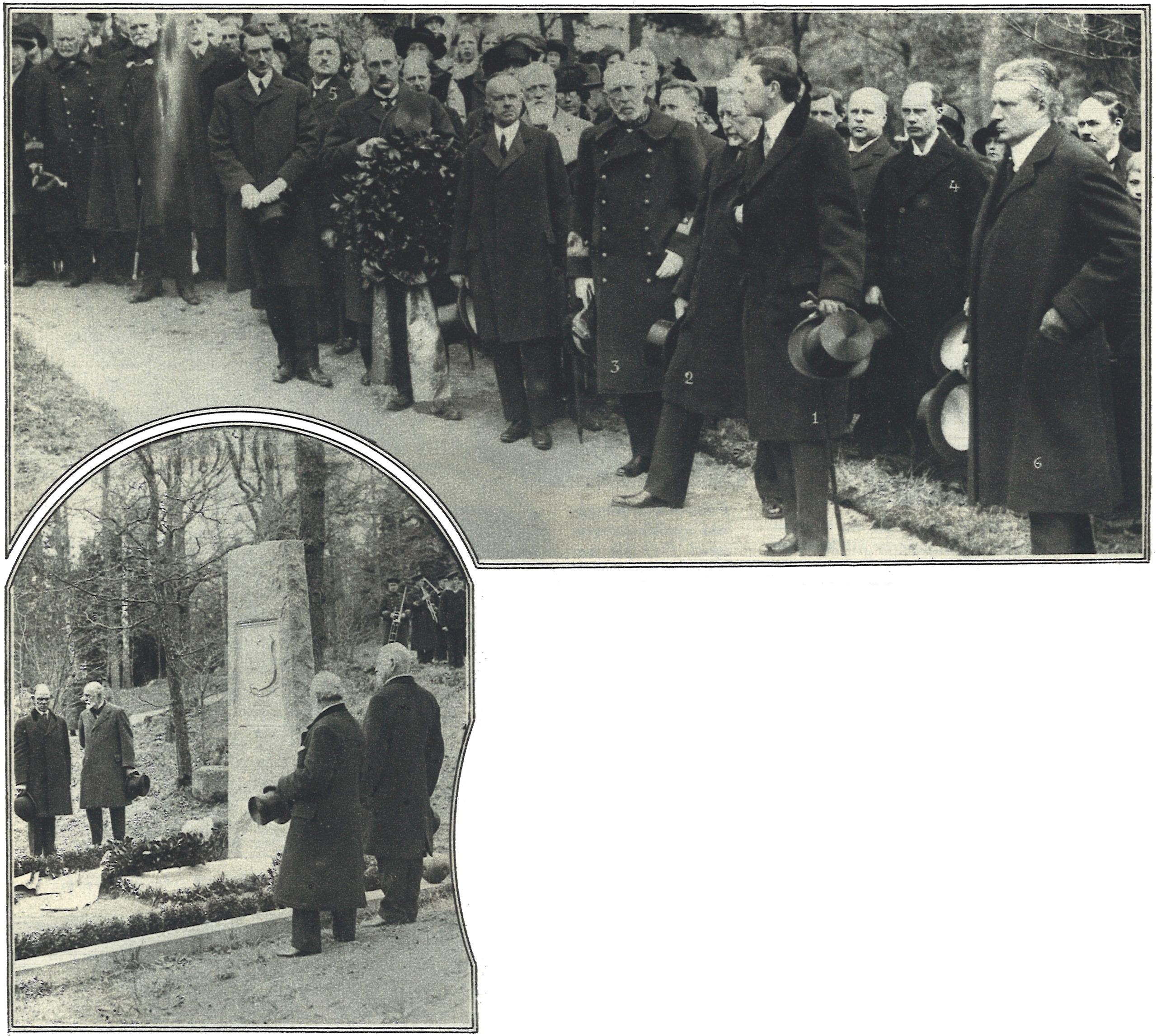 The inauguration of a memorial at the grave of Louis Palander (captain of the Vega Expedition) at Djursholm cemetery in April 1925. Amongs the people seen in the larger picture are crown prince Gustaf Adolf (1), prince Eugen (2), prince Oscar Bernadotte (3), prime minister Rickard Sandler (4), explorer Sven Hedin (5) and count Eric von Rosen (6).